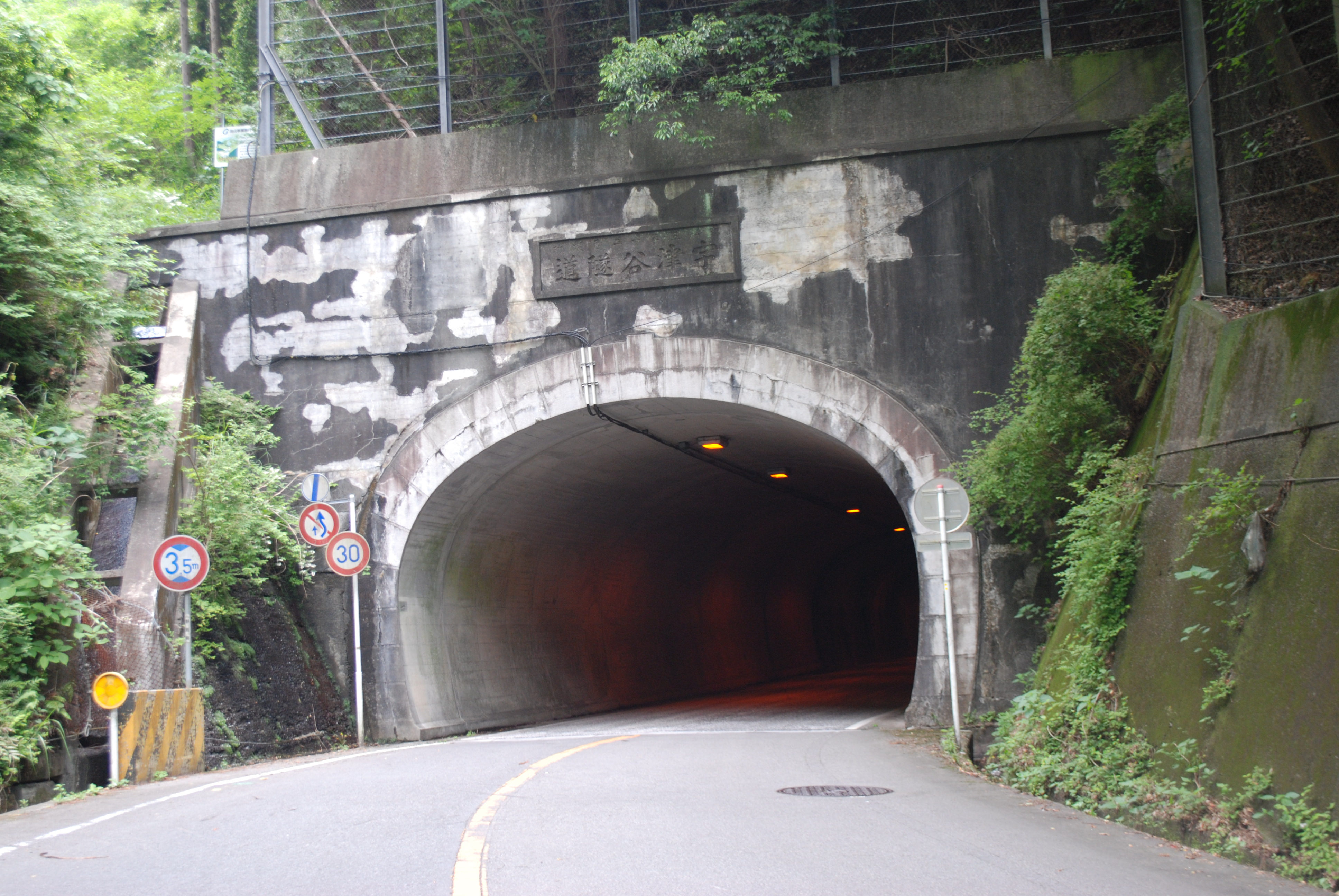 Utsunoya-tunnel Taisho,Fujieda-city,Japan